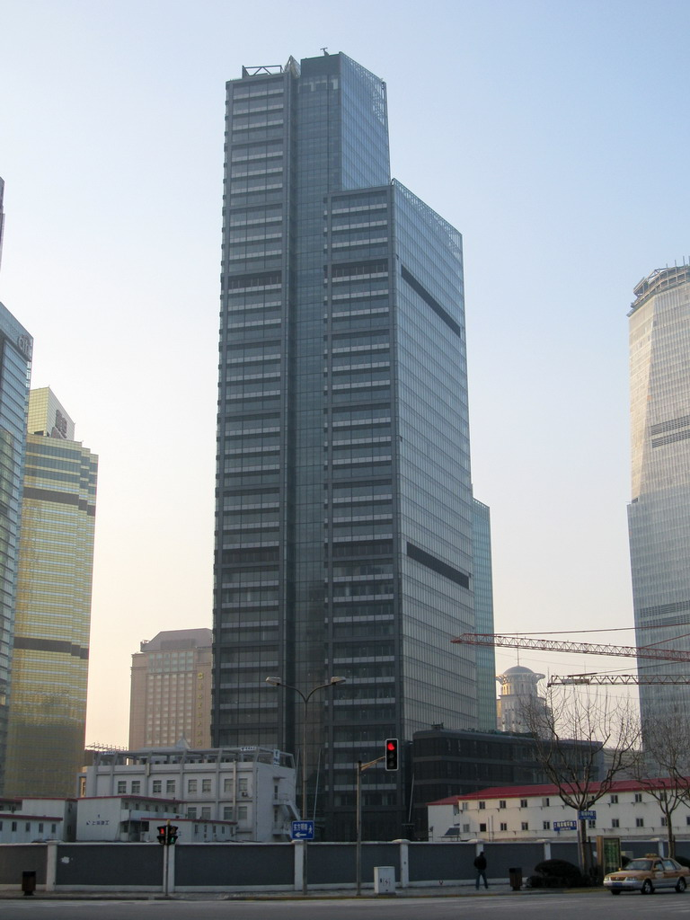 BEA Finance Tower (F.K.A. Global Finance Tower)